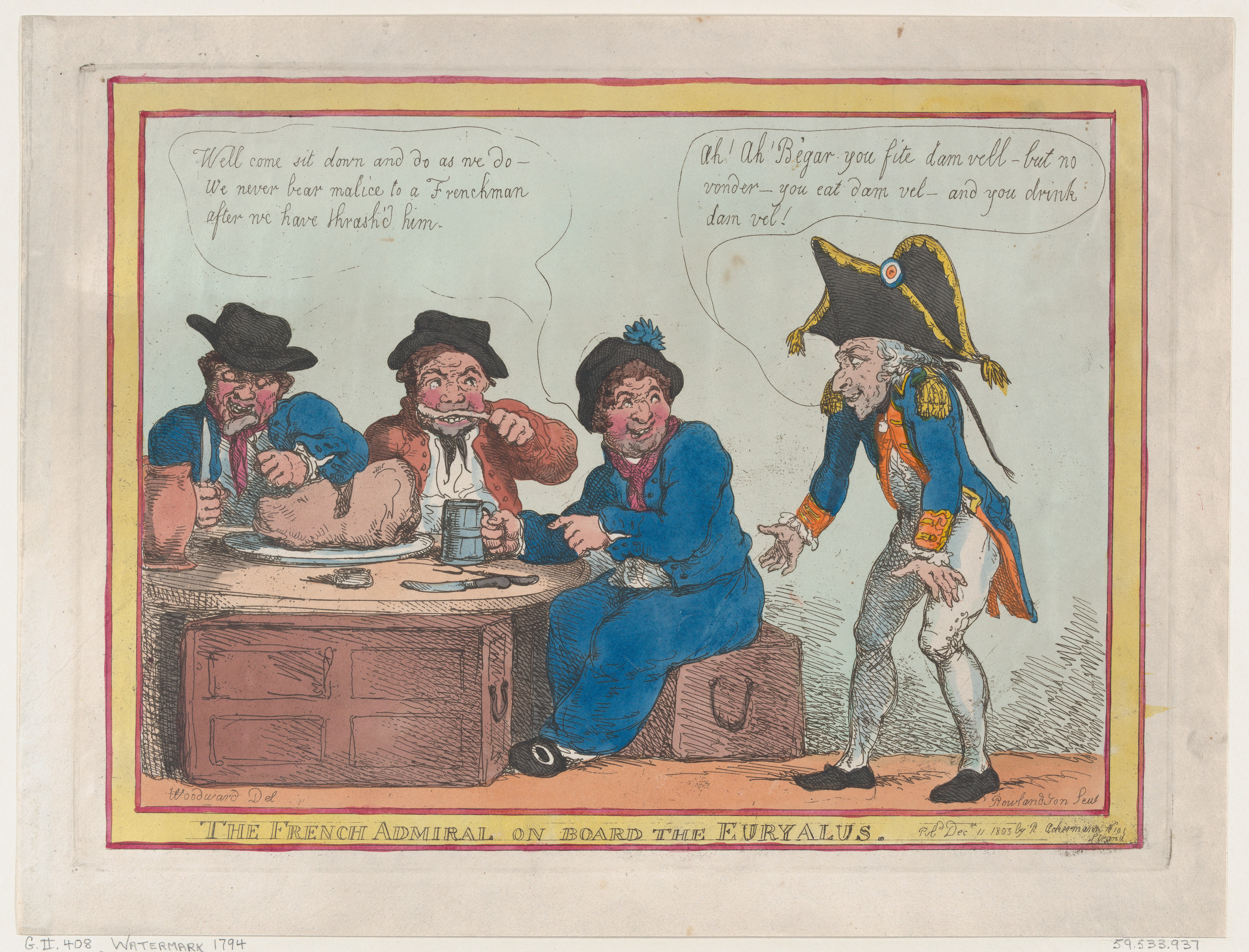 Print; Prints